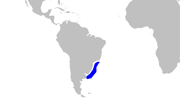 Distribution map for Squatina guggenheim